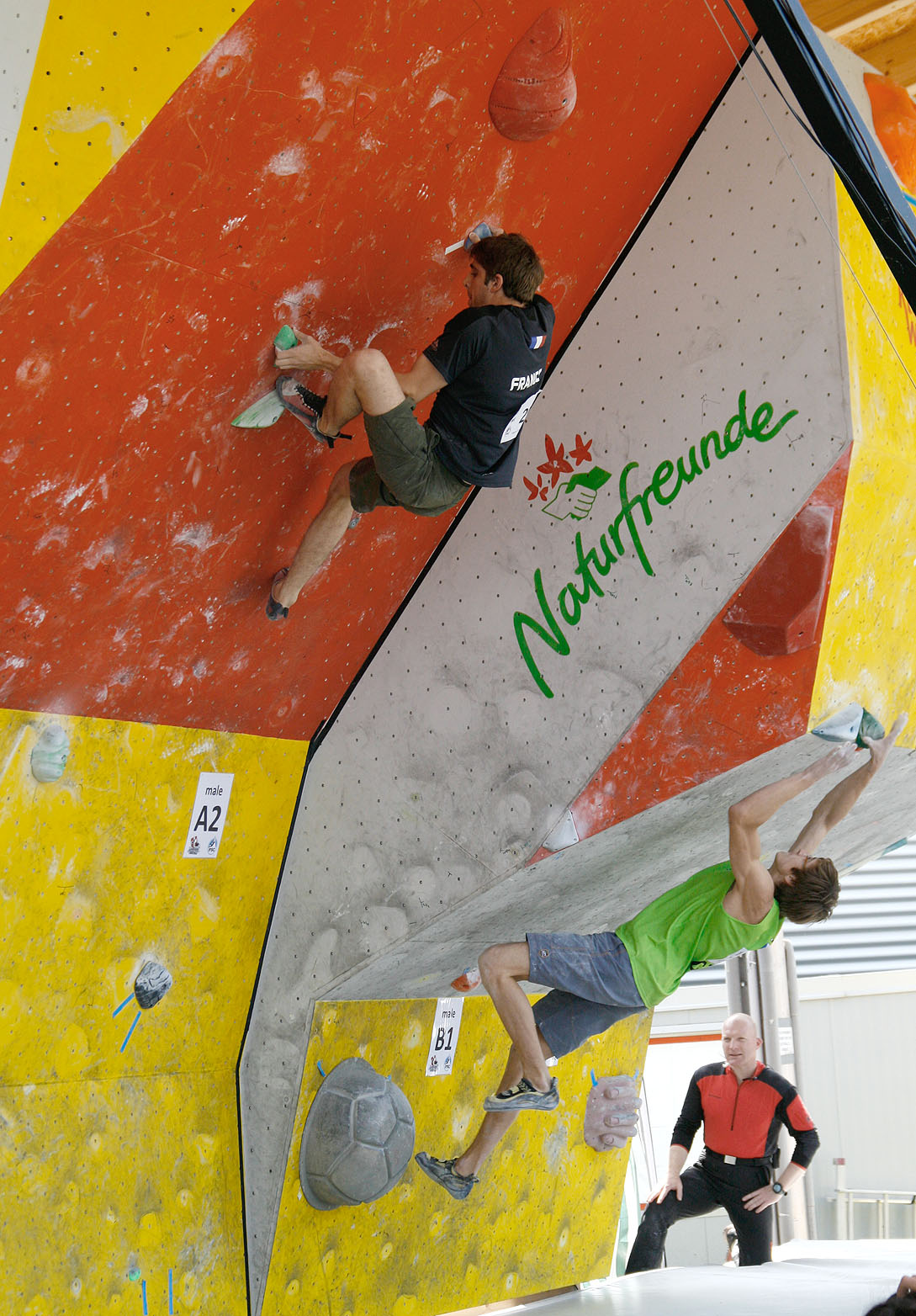 Thomas Caleyron and Ondřej Nevělík during qualifications at the IFSC Boulder Worldcup Vienna 2010.